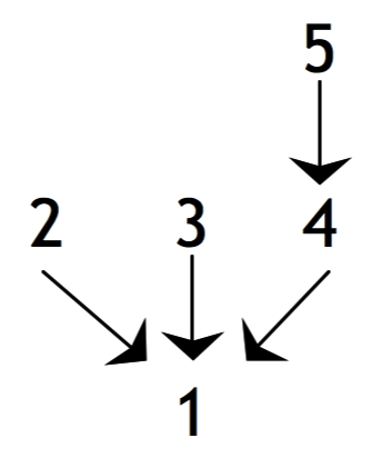 An example of an intermediate conclusion